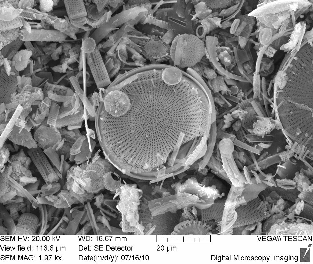 preparation of various diatoms